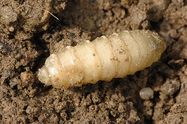 Picture taken in Commanster, Belgian High Ardennes . Species: Haematopota pluvialis larva